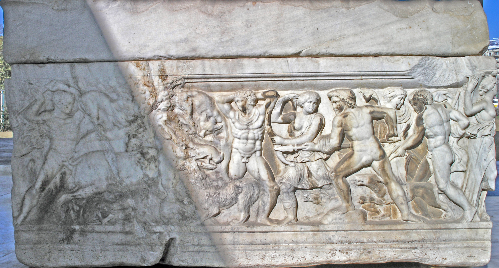 Sculpted neo attic sarcophagus representing the Calydonian boar hunt (with Atalanta and Meleager) in the Thessaloniki Archaeological Museum, inv. 1246. Second quarter of the 3rd c. AD. Photograph taken by Marsyas 17:43, 25 February 2006 (UTC)